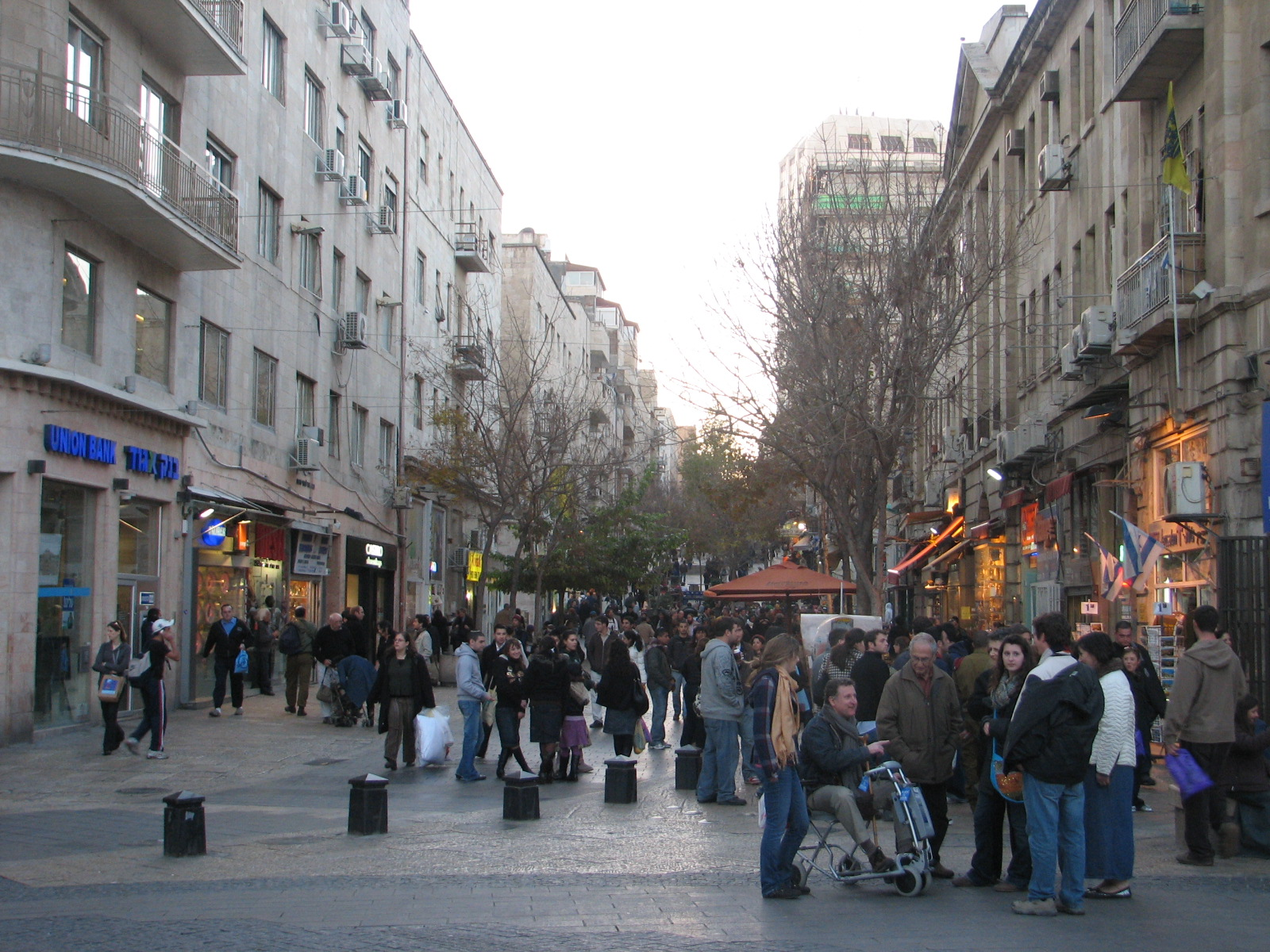 Urban scene of West Jerusalem's "Triangle" district.